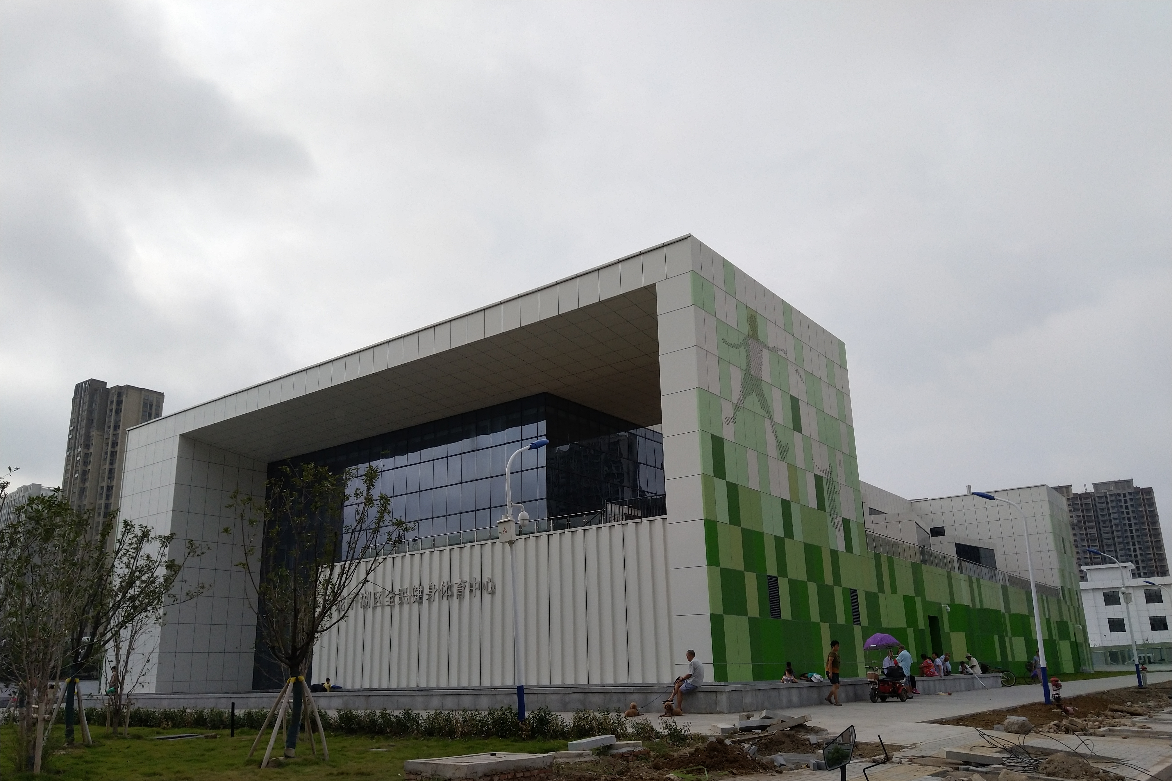 Bengbu City Longzihu District Civil Sports Center